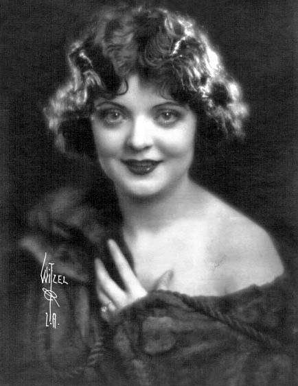 Portrait of American actress Ethel Shannon (1898–1951) by American photographer Albert Witzel (1879–1929).